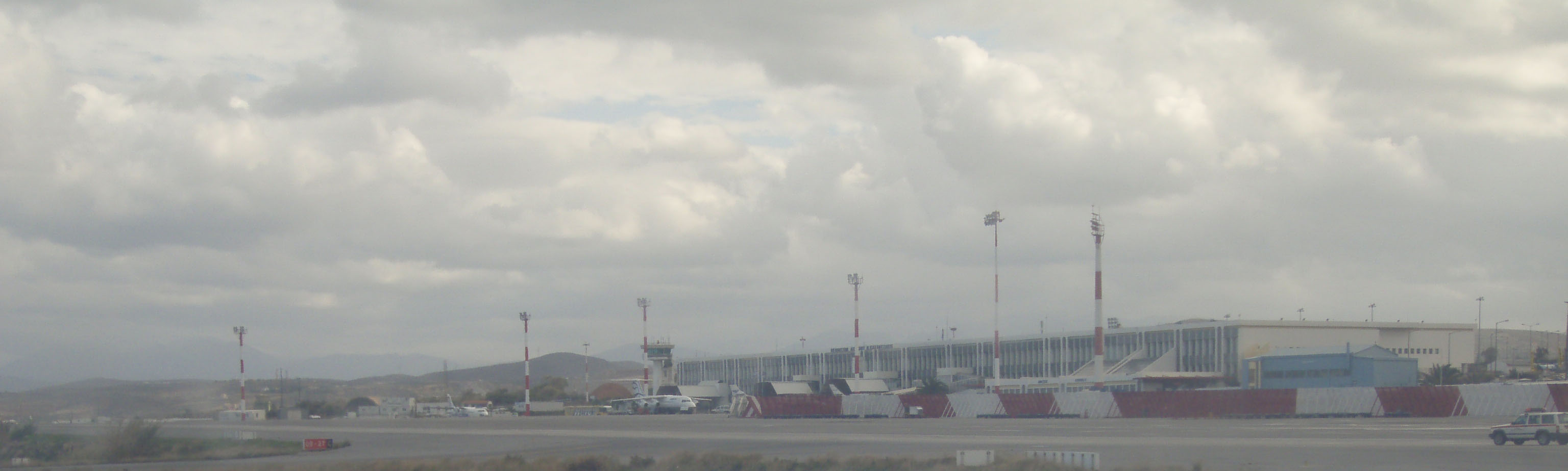 Hazy view of Heraklion International Airport, "Nikos Kazantzakis" on the island of Crete, Greece